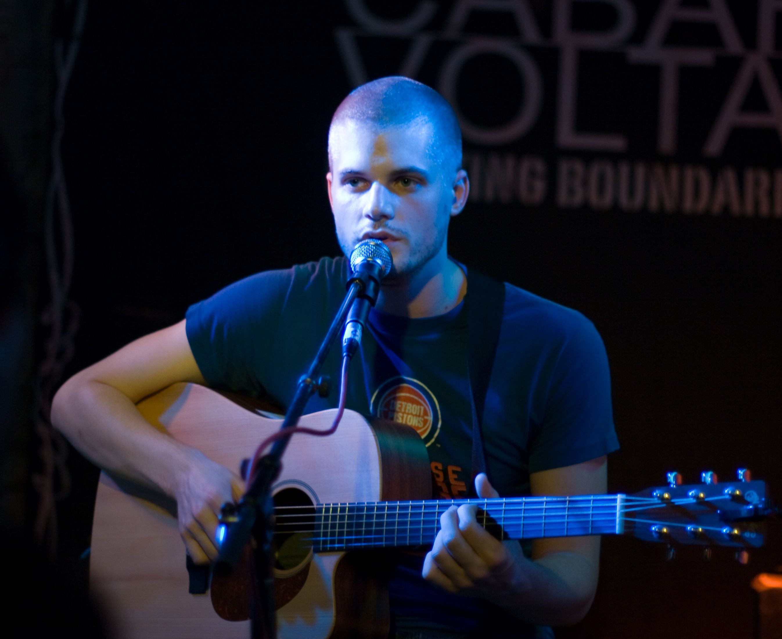 Jay performed at Cabaret Voltaire during the Edge Festival in Edinburgh.